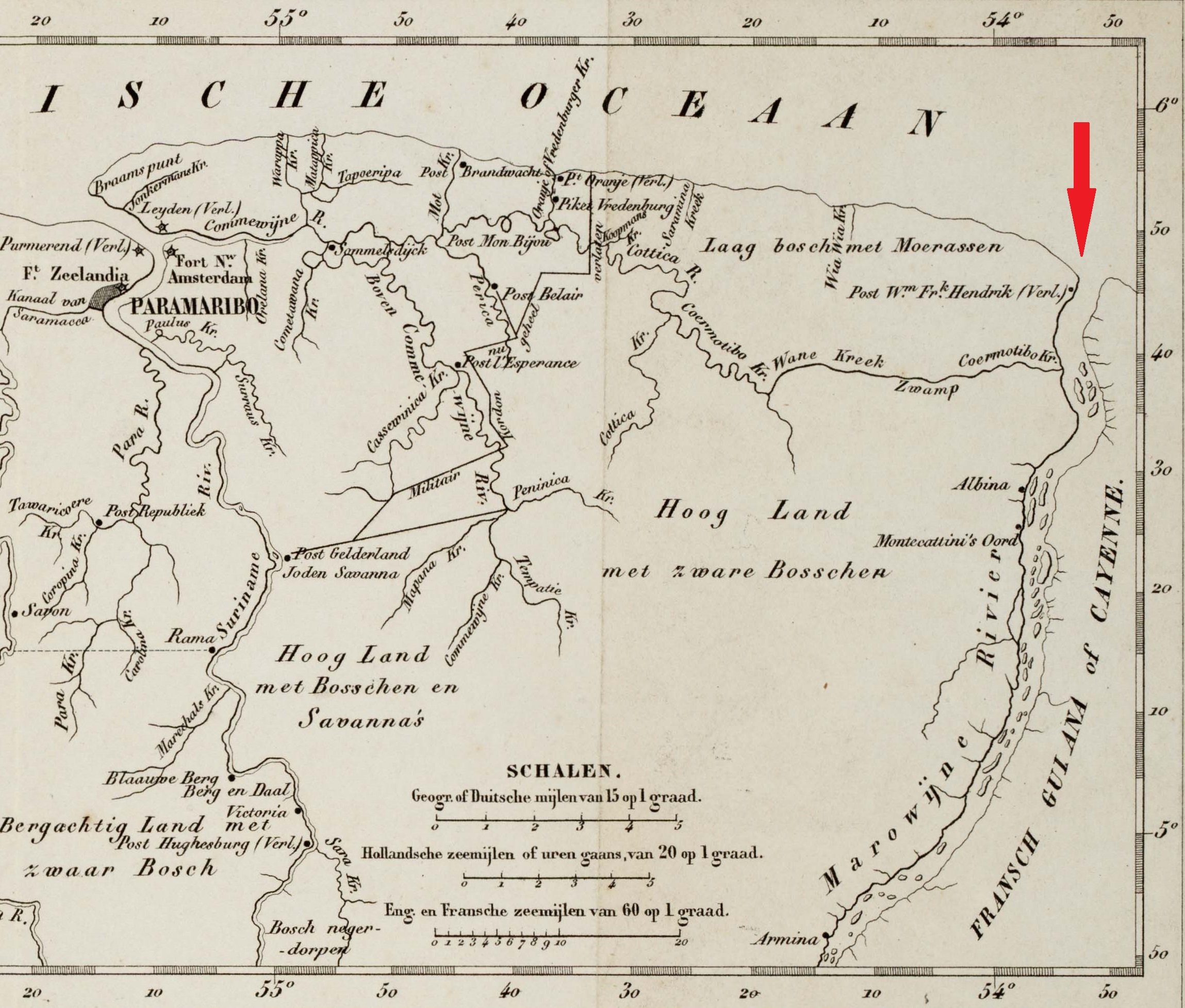 Old map of Suriname, 1853